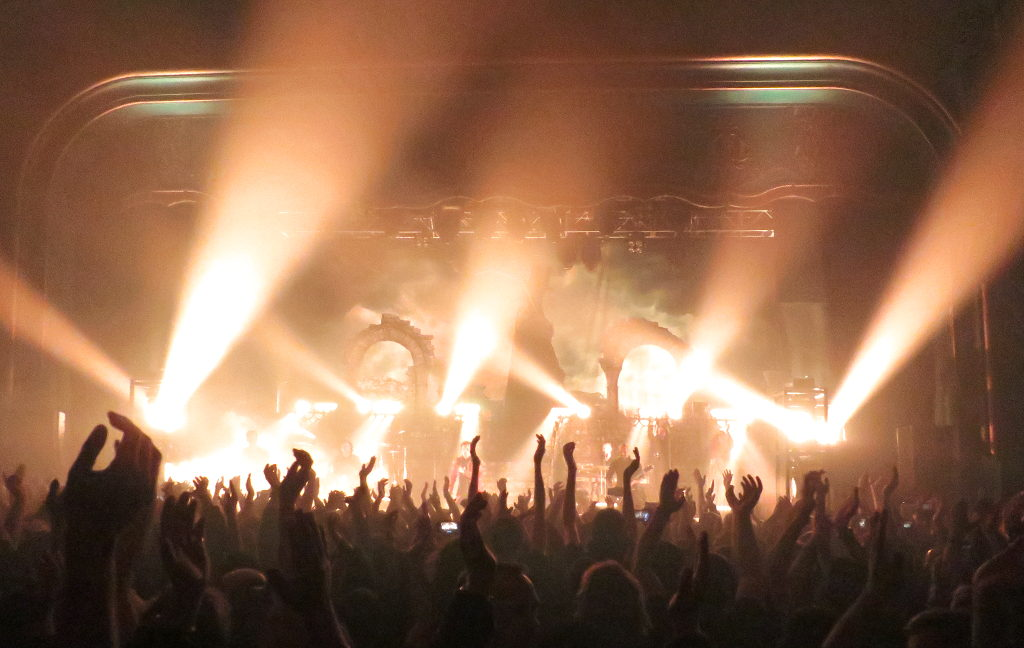 The crowd applauding Avantasia performing at The Forum in London